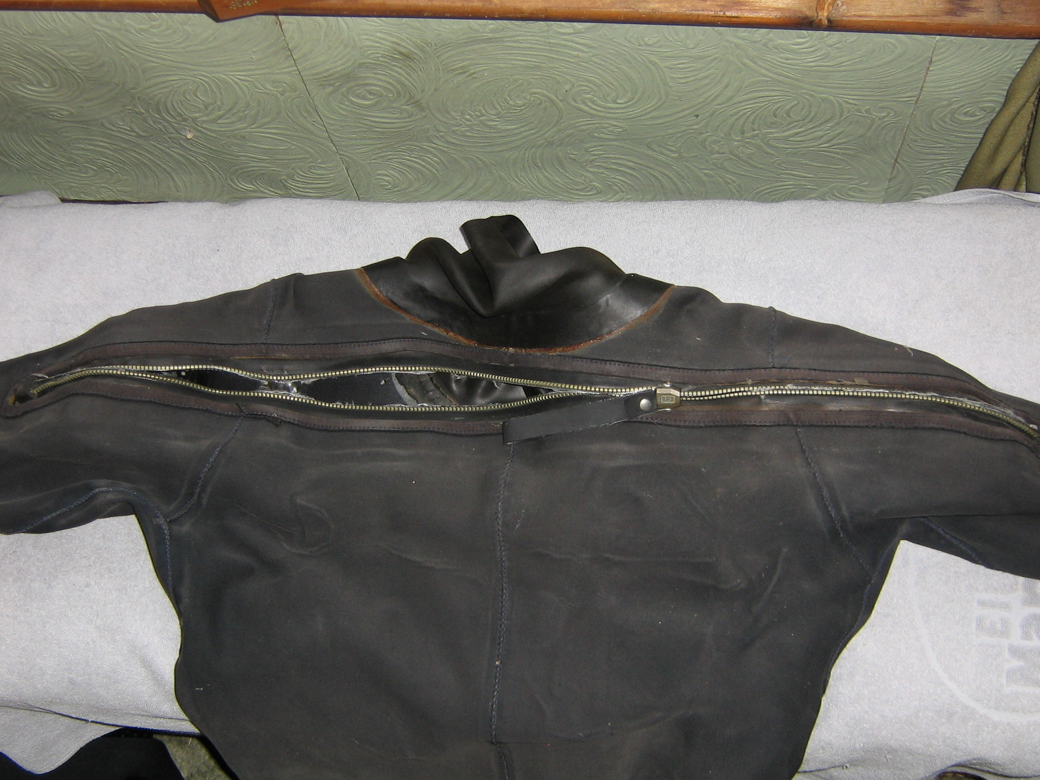 Dry suit with shoulder (rear) entry zip